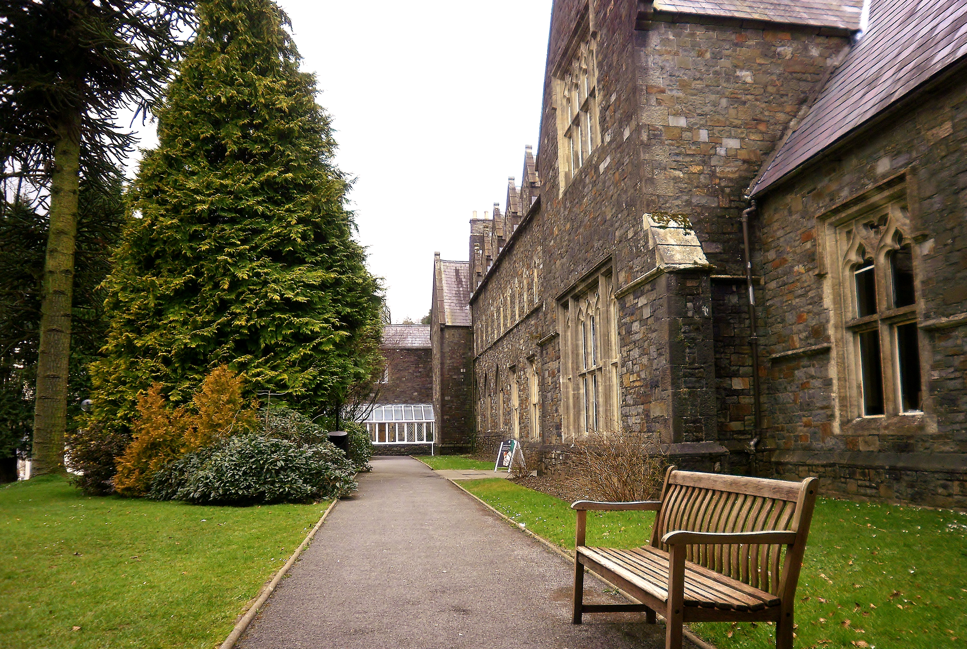 Photograph of original college building Trinity college carmarthen